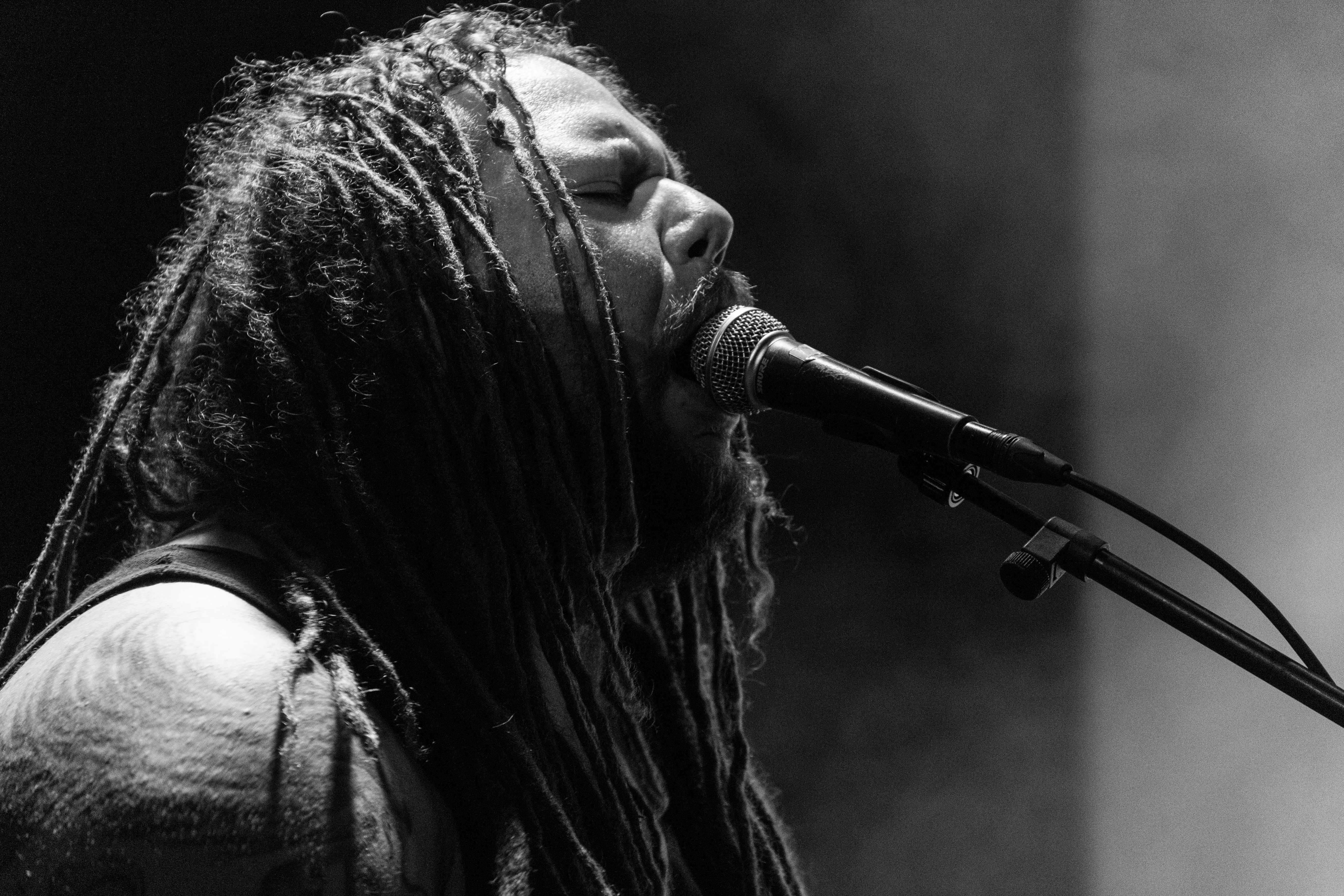 Primitive Man performing at Roadburn Festival, april 2015